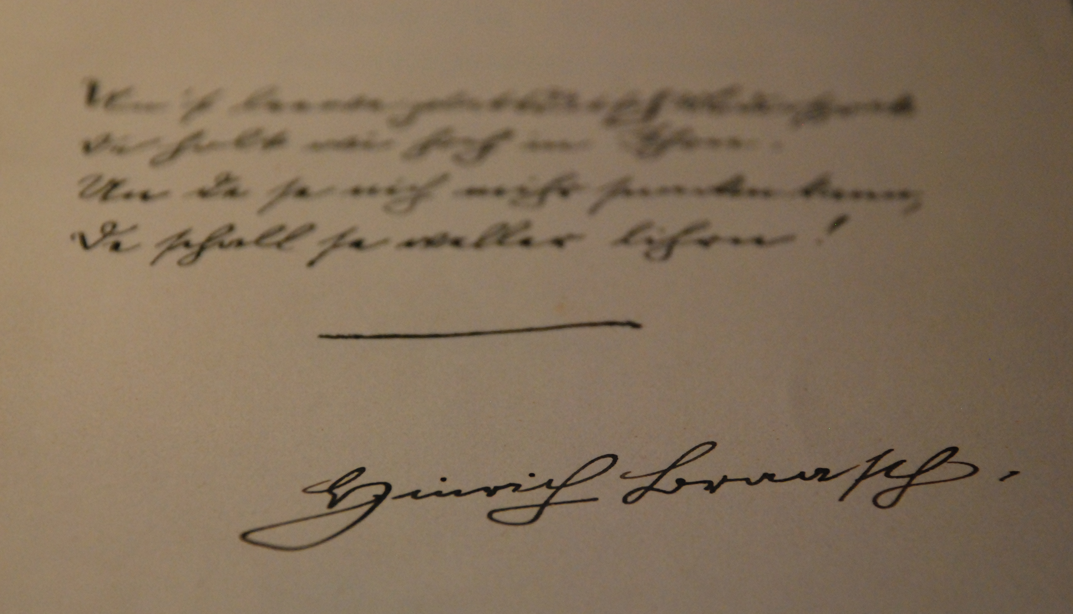 signature of low german author Hinrich Braasch